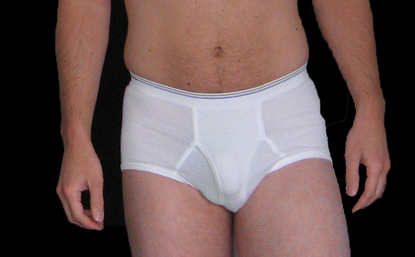 Male wearing full cut briefs.